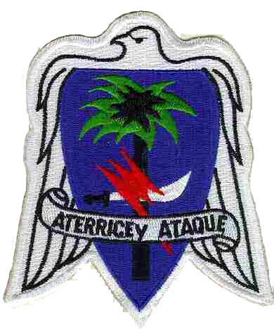 Patch of the 551st Parachute Infantry Regiment.